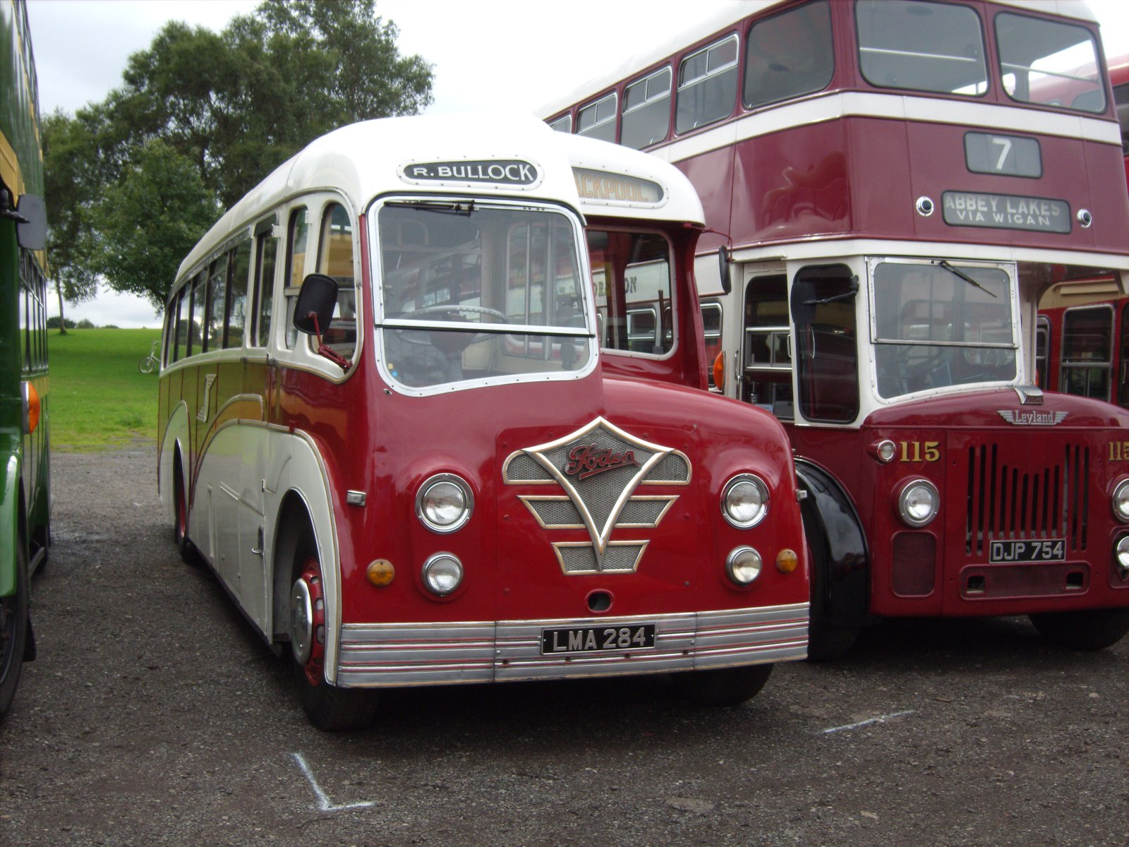 Foden PSV